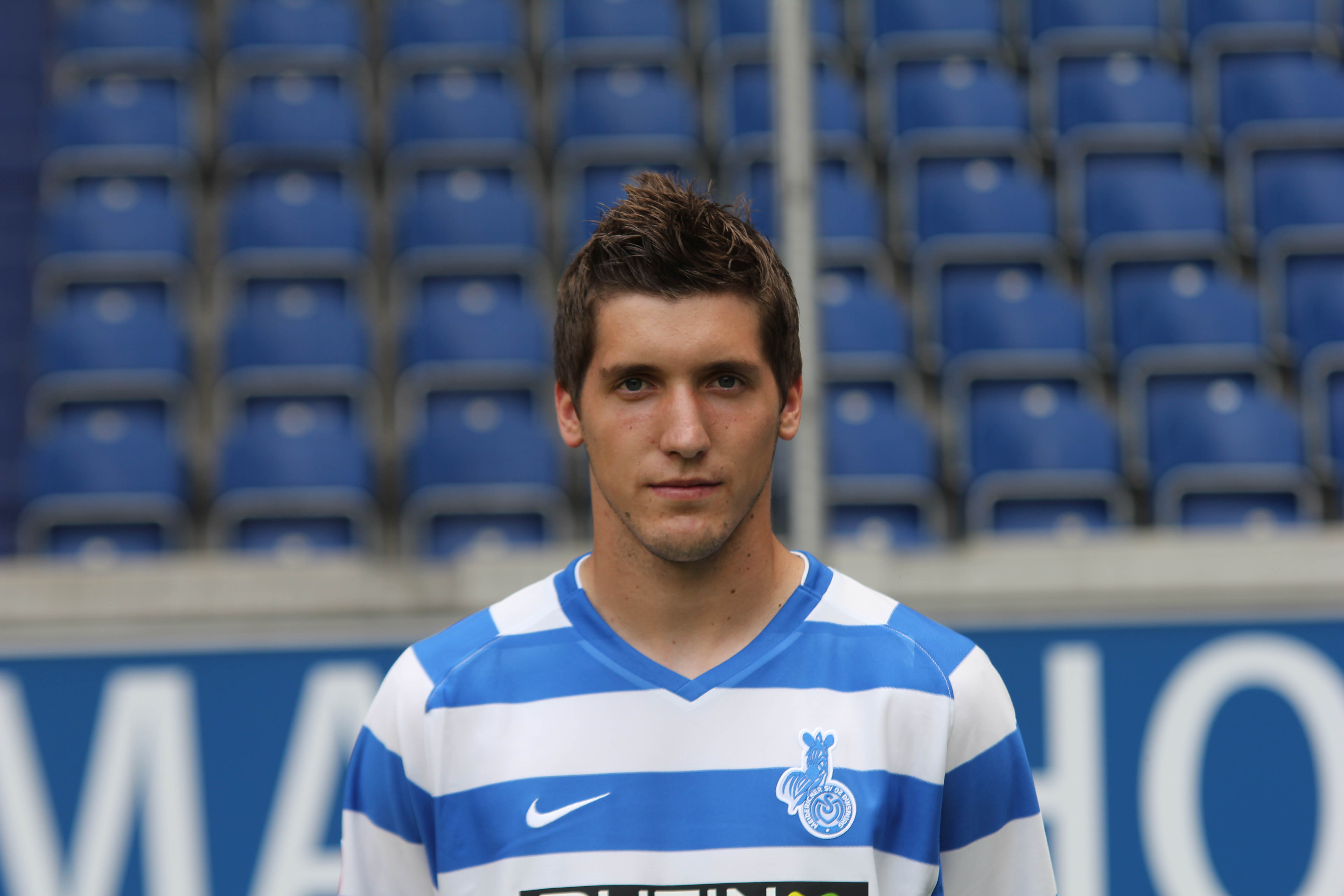 Croatian footballer Zvonko Pamić, MSV Duisburg